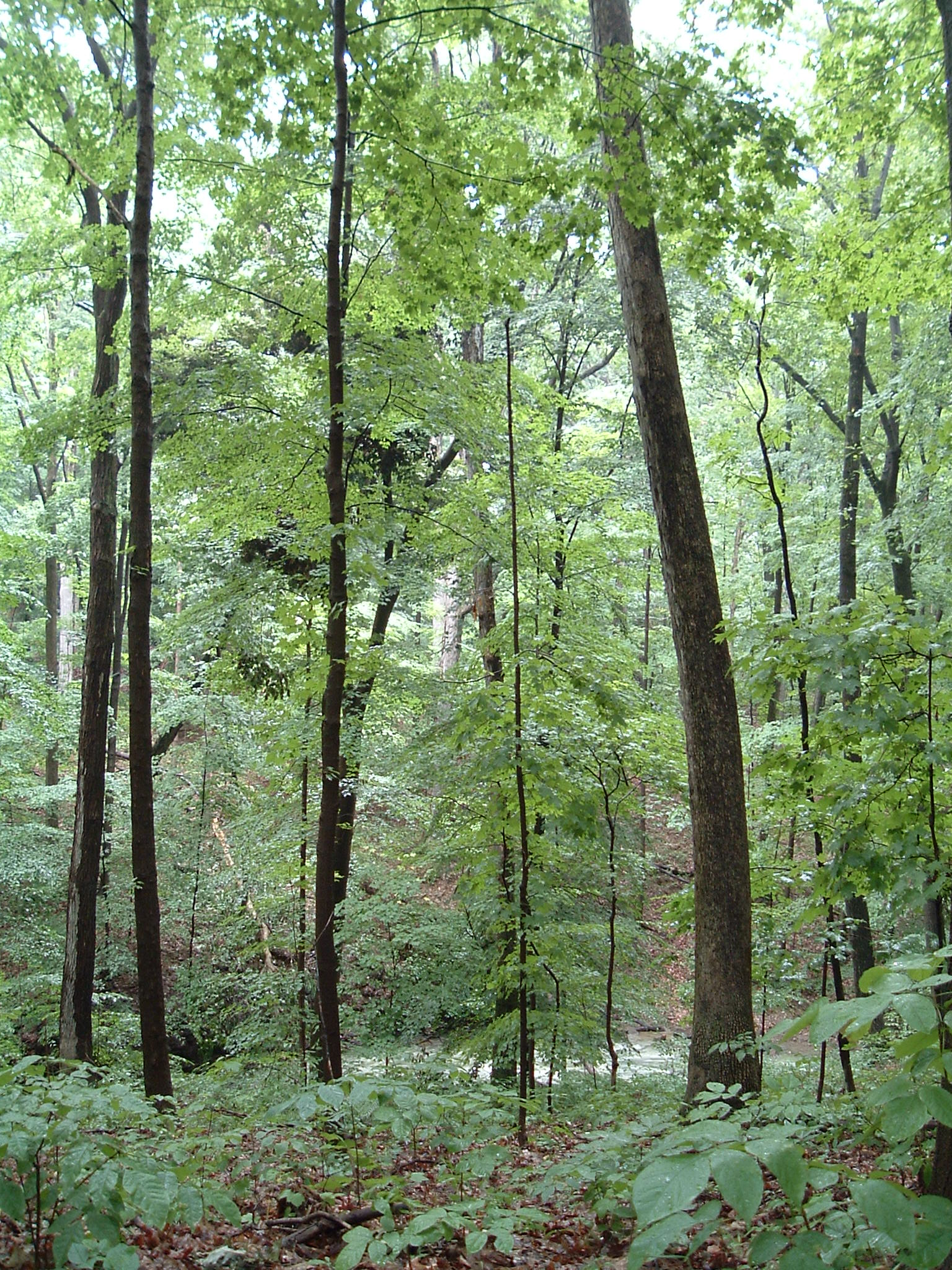 View of a ravine area in Highbanks Metro Park, Ohio.